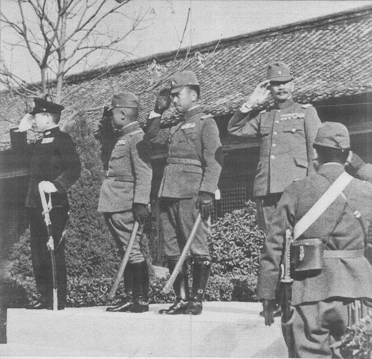 Commanders on the dais of the Nanking Entry Ceremony.